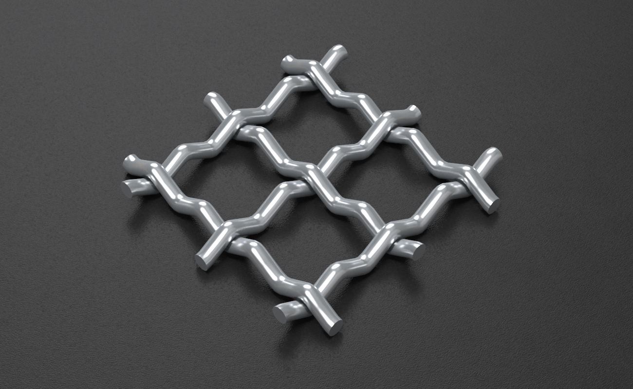 Scheme of crimped wire mesh of III type TU 1276-002-38279335-2013